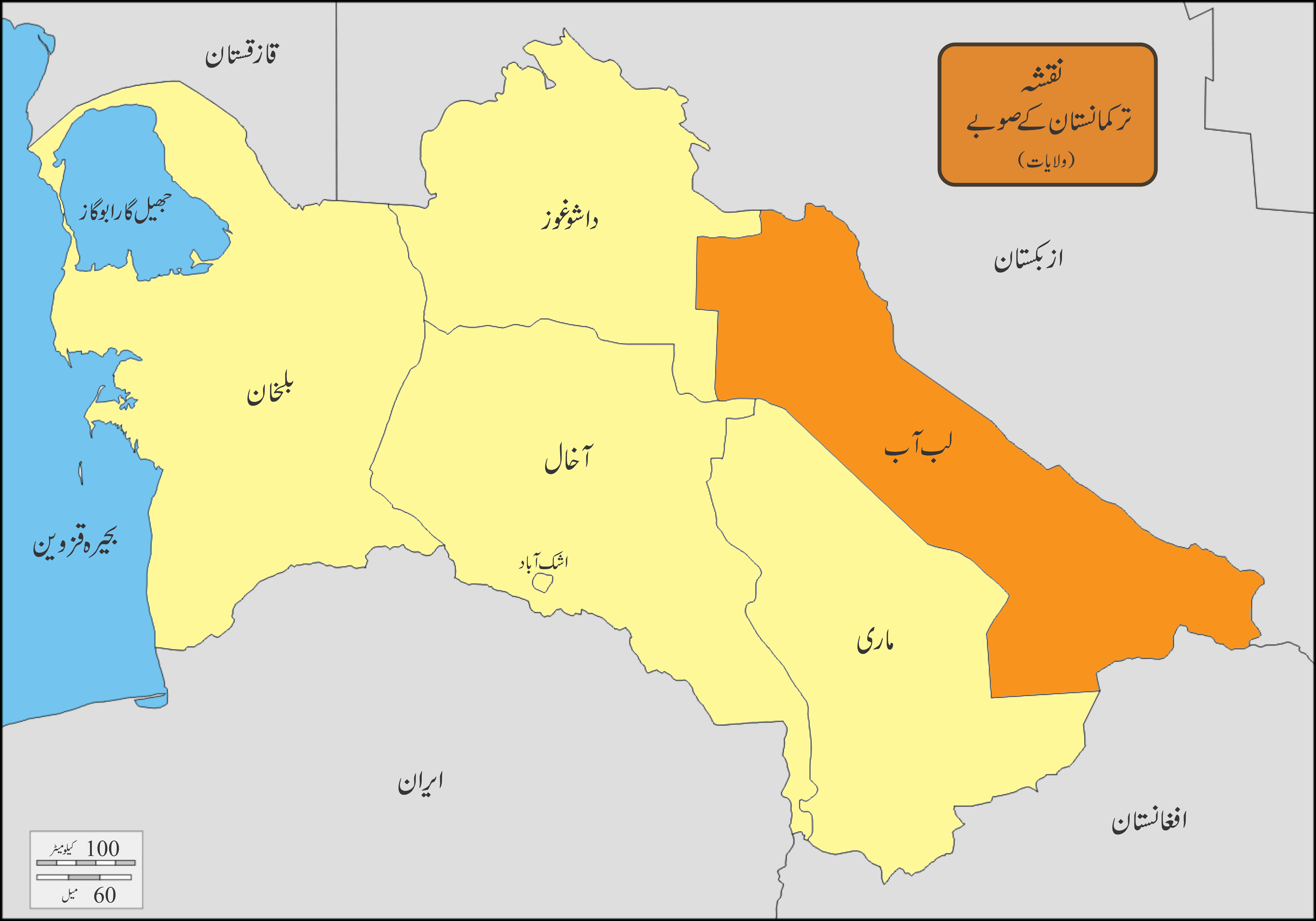 Turkmenistan Ur Lebap